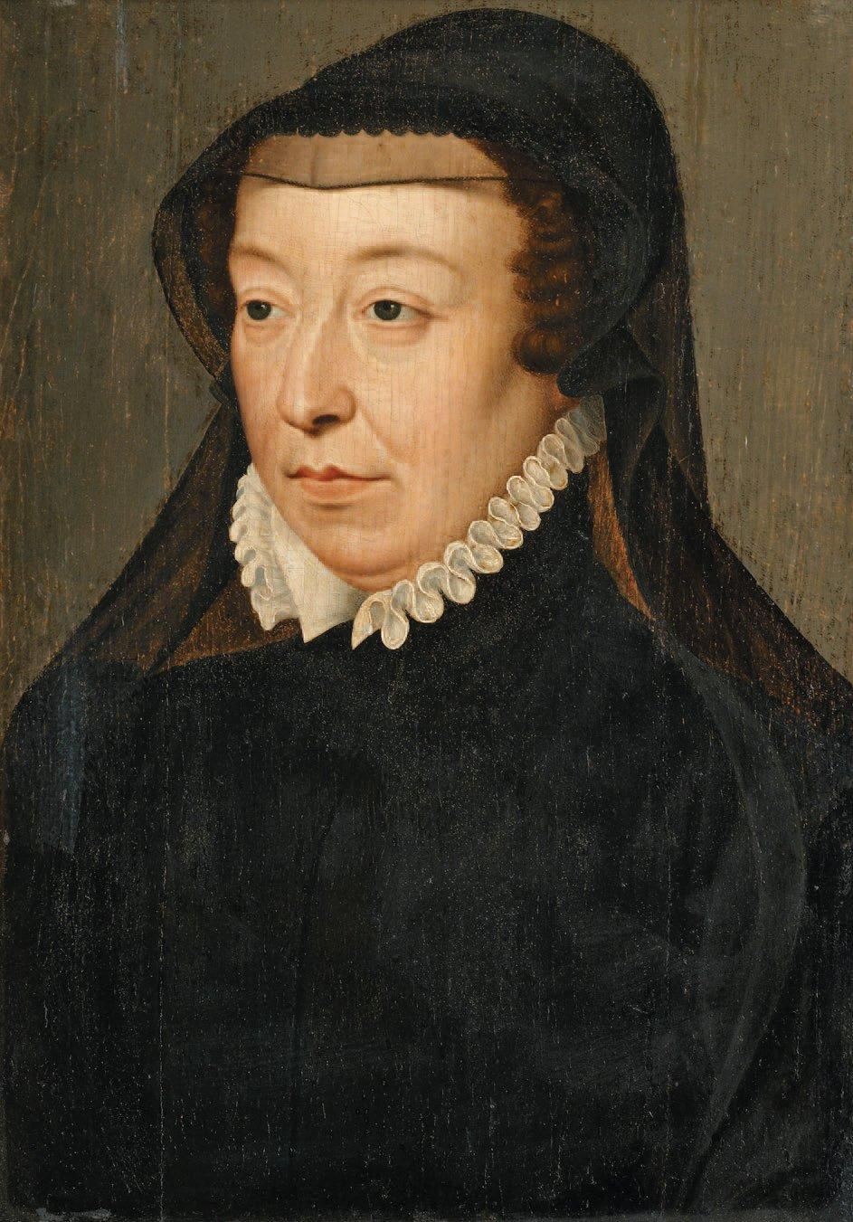 Catherine de' Medici wears the black cap and veil of widow, after 1559.